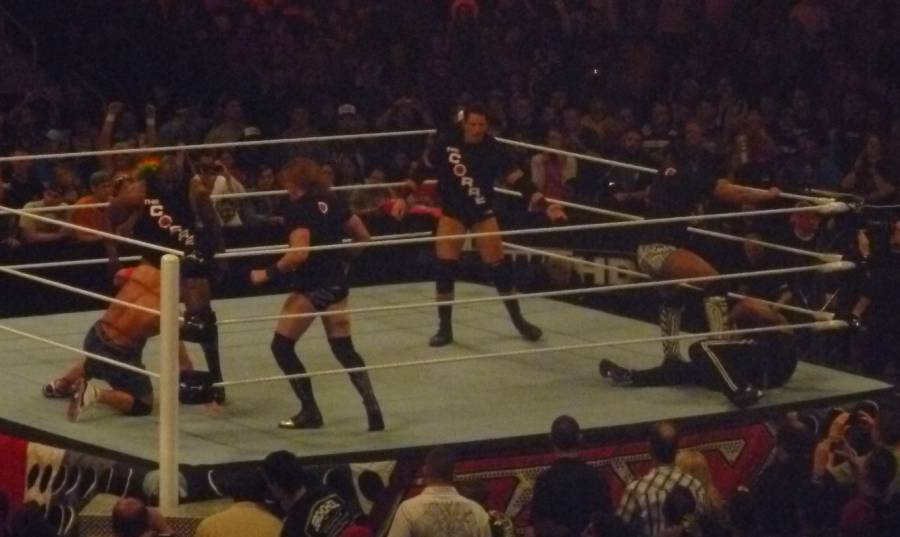 The Corre utilising their usual gang attack.